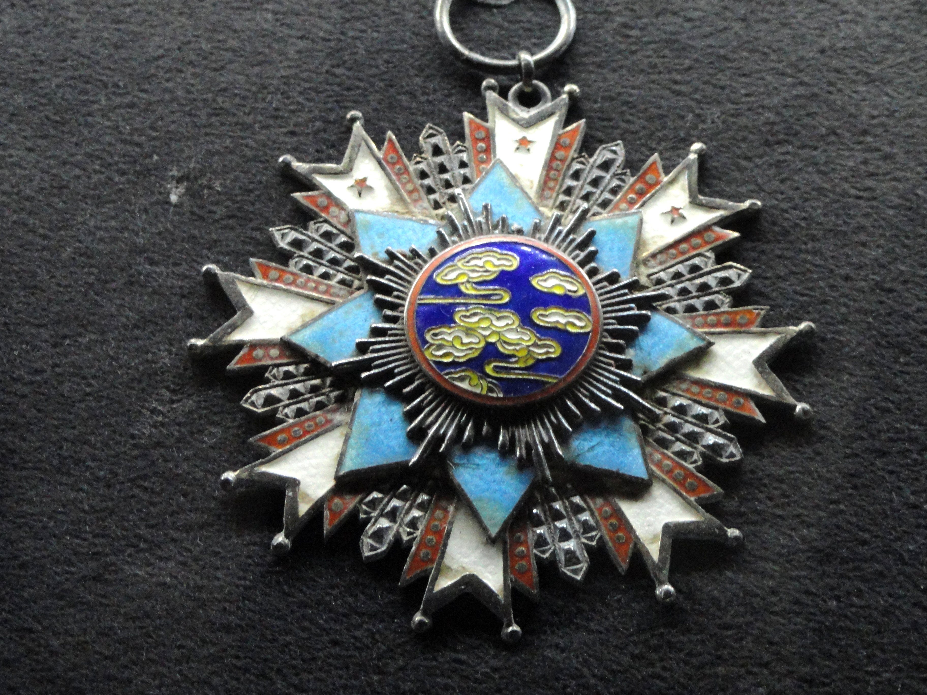 IExhibit in the Memorial JK, Brasília, Brazil.